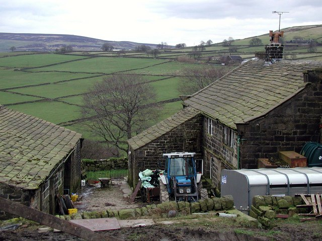 Edge End Farm, Erringden Farm on the northeastern slopes of Edge End Moor, looking down the hill towards Beaumont Clough.